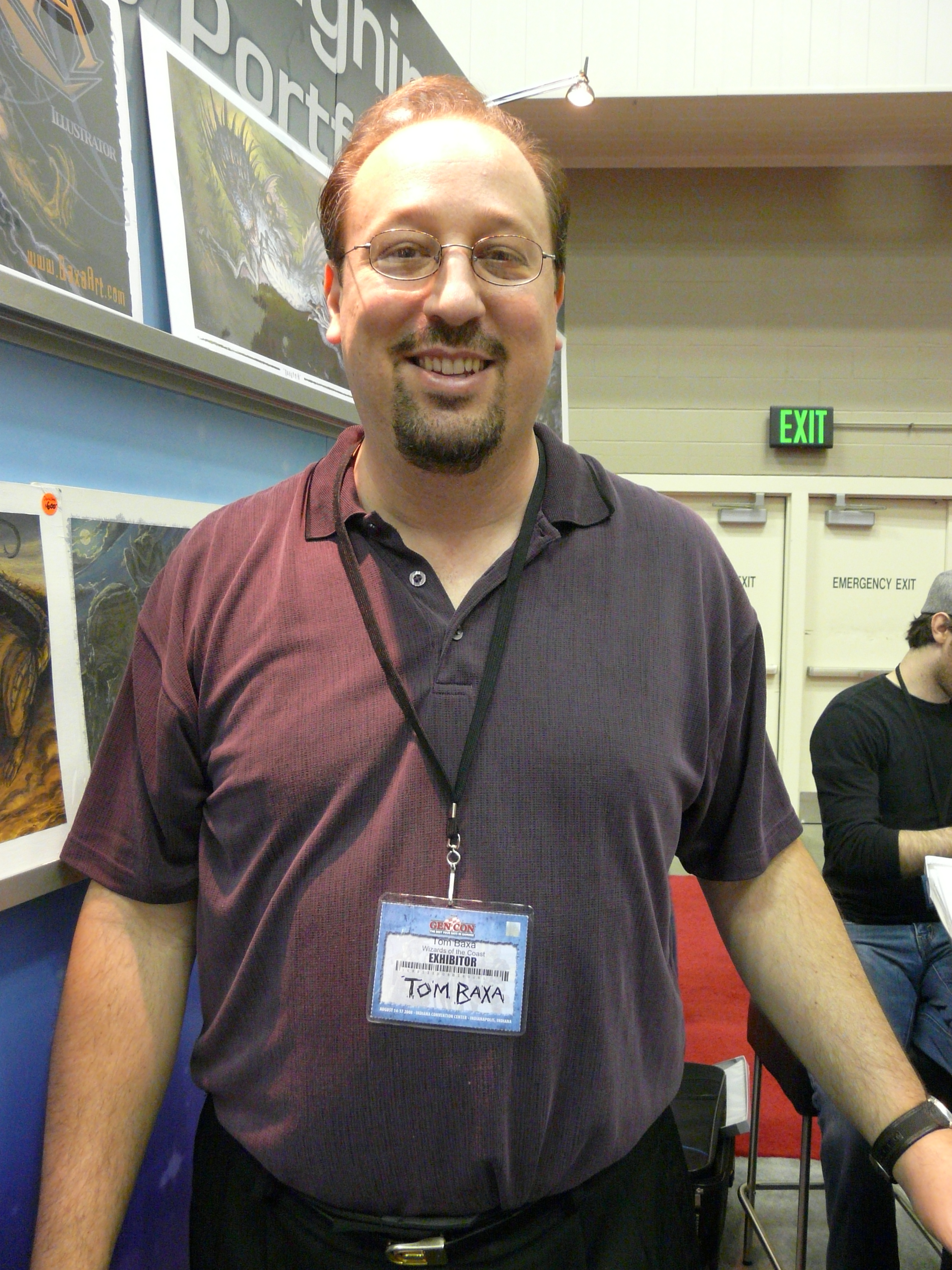 Picture of Gen Con Indy 2008 in Indianapolis, Indiana, USA. Tom Baxa, an artist